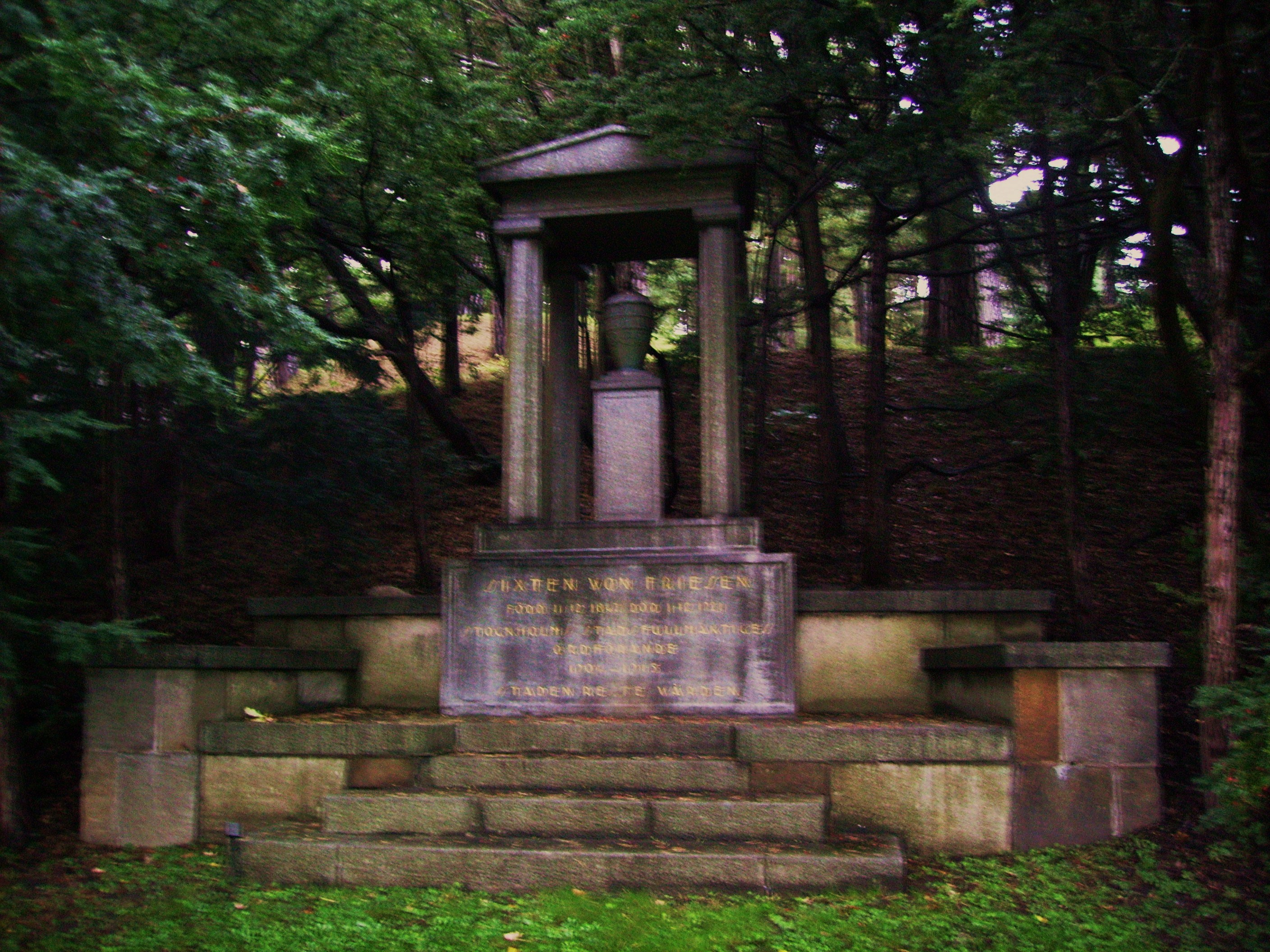 Picture of Sixten von Friesen's grave at Norra begravningsplatsen in Stockholm